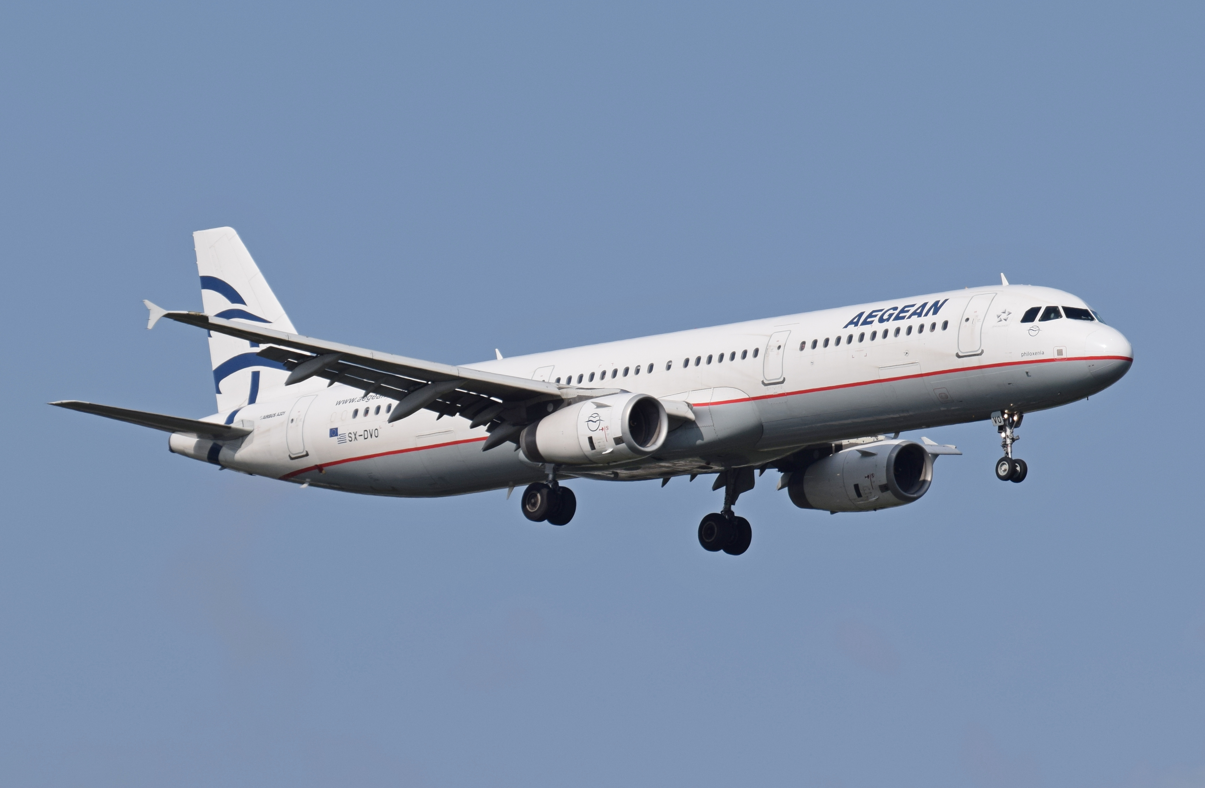 Aegean Airlines Airbus A321-200 (SX-DVO) arrives London Heathrow Airport, England.